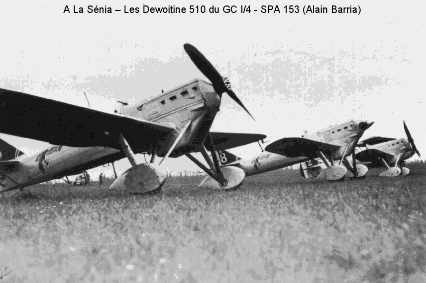 Dewoitine 500 park in la Sénia